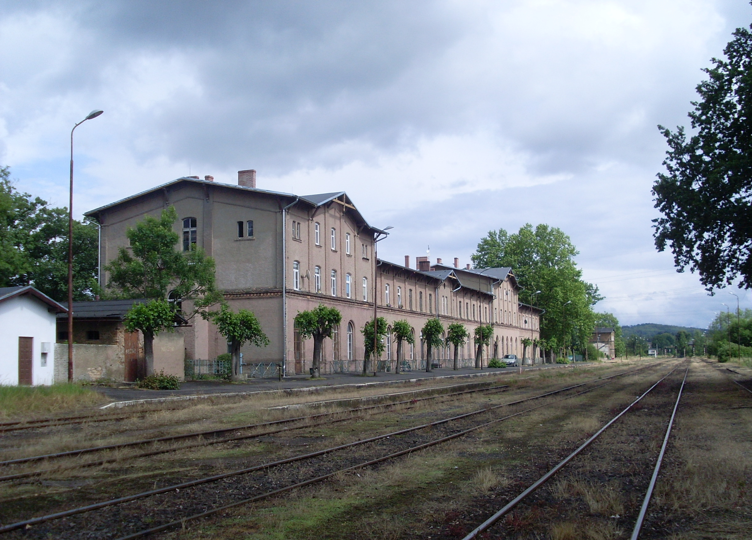 Zawidów railway station, view towards south